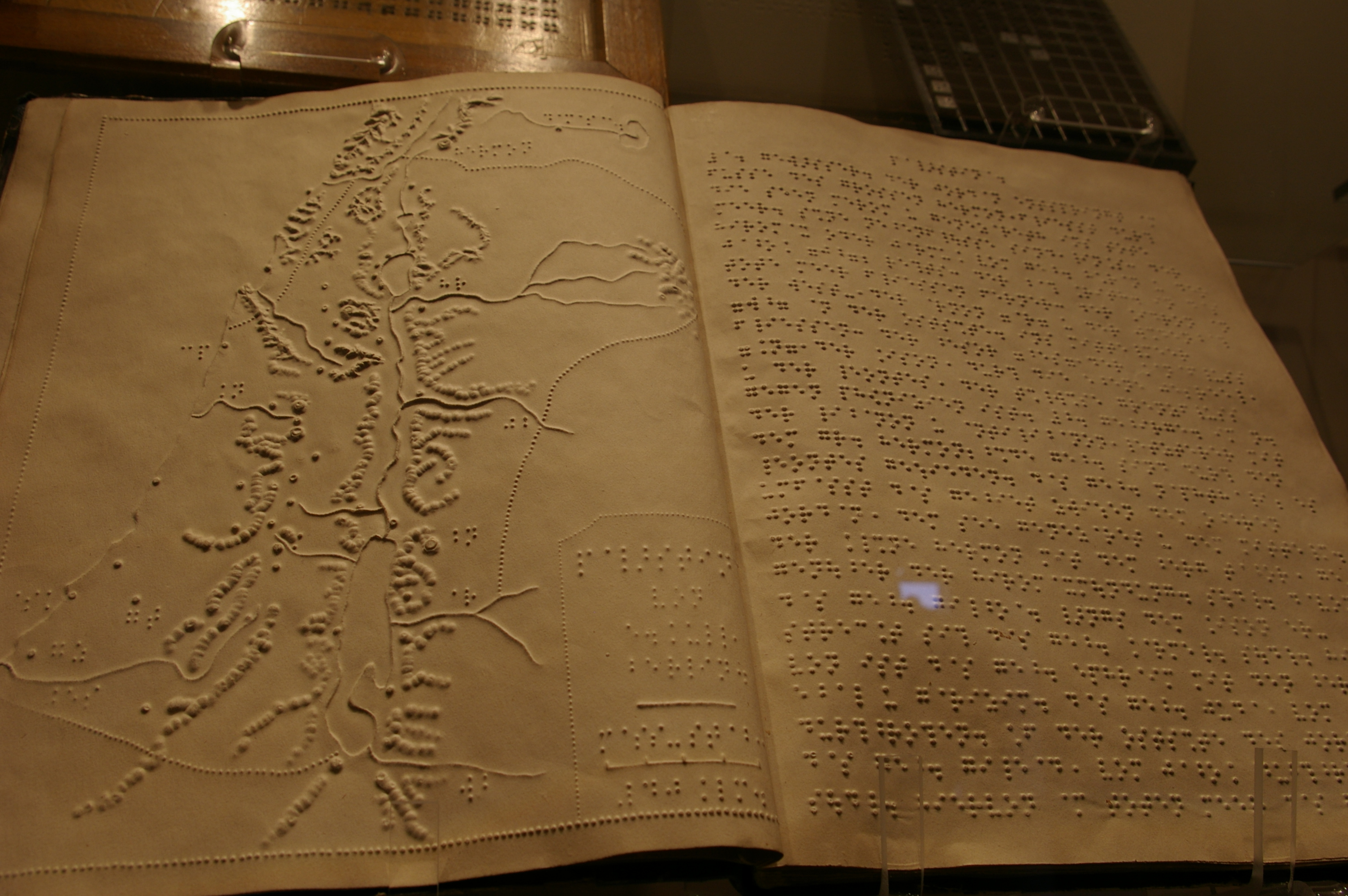 Book in braille in the House museum of Louis BRAILLE